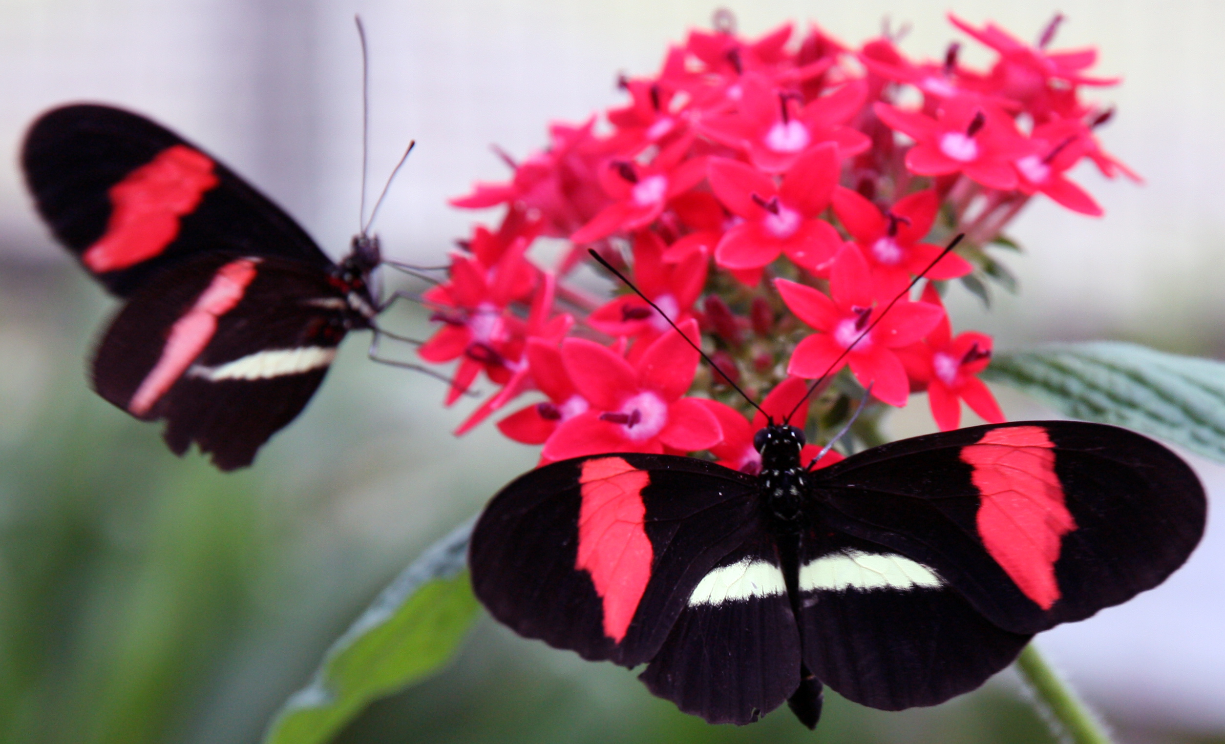 Heliconius melpomene rosina: Member of the heliconiine butterflies; This photo was taken at the Munich Botanical Garden (German: Botanischer Garten München-Nymphenburg) at the Tropical butterflies – special exhibition in March 2013, where you could experience live exotic butterflies in the aquatic plants greenhouse number 4 of the glasshouse complex. Over 400 different types of butterflies thriving in a warm and humid tropical rain forest environment.